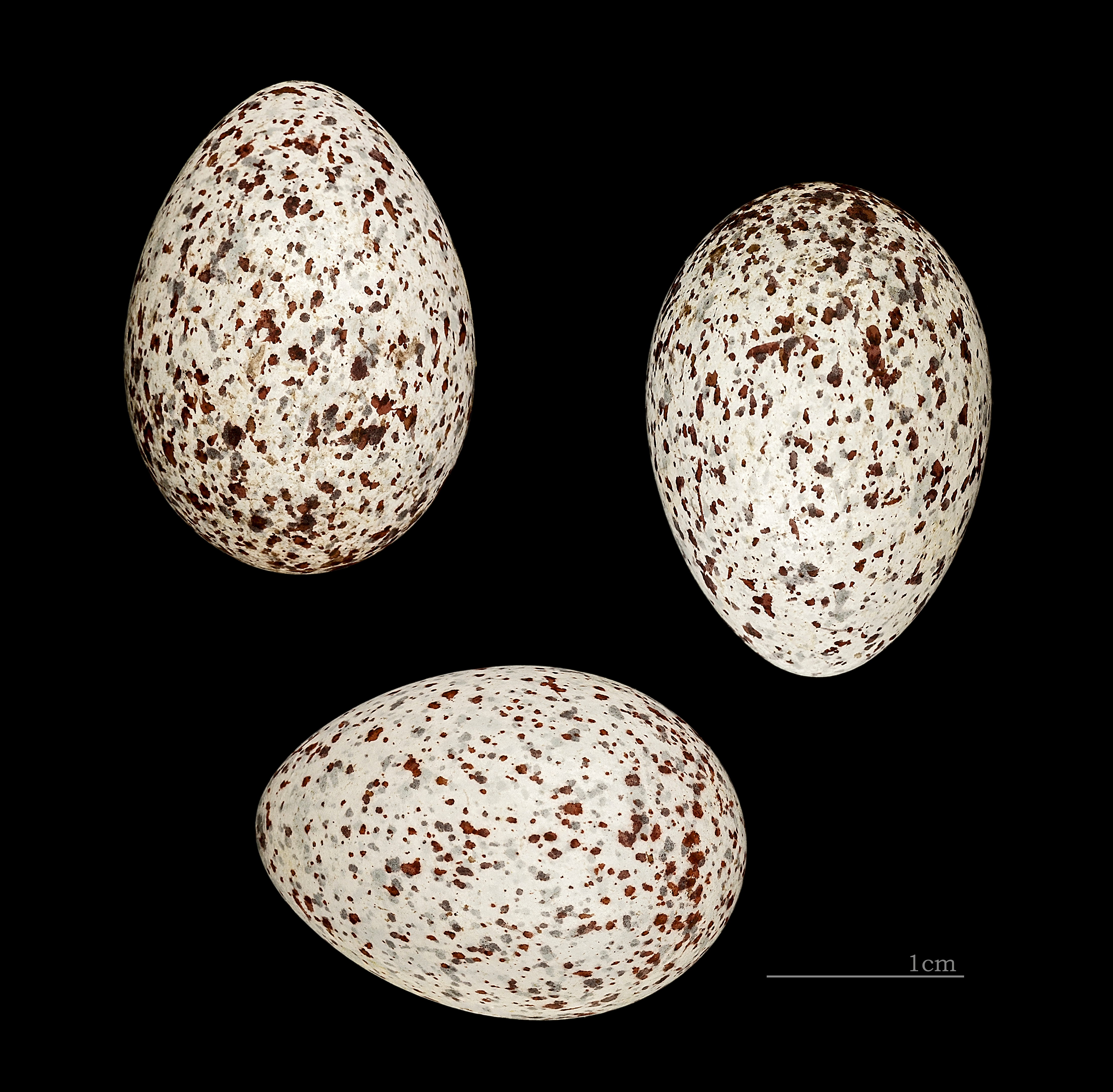 Egg of White-spectacled Bulbul Collection of Jacques Perrin de Brichambaut.